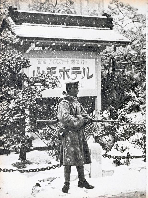 A soldier at Sanno Hotel during the February 26 Incident (二・二六事件).